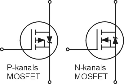 n- and p-channel MOSFETs